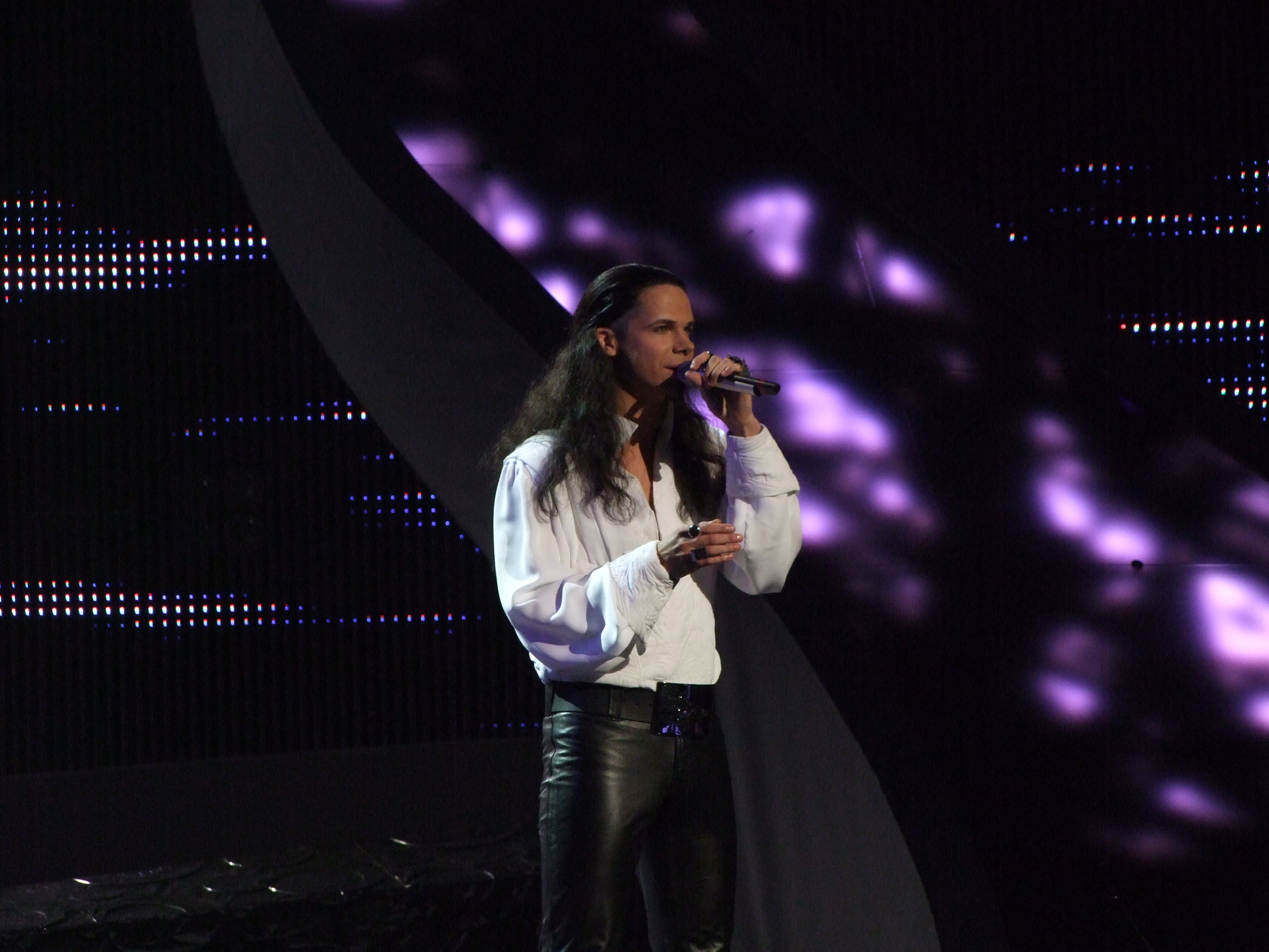 Eurovision Song Contest 2008, 2nd semifinalLithuania: Jeronimas Milius - Nomads in the night